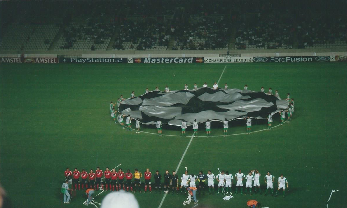 Maccabi Haifa-Bayer 04 Leverkusen UEFA Champions League 2002